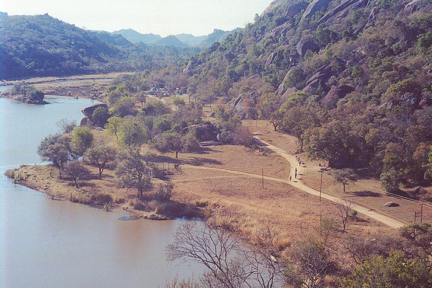 Camp sites at Maleme Dam, Matobo Hills, Zimbabwe